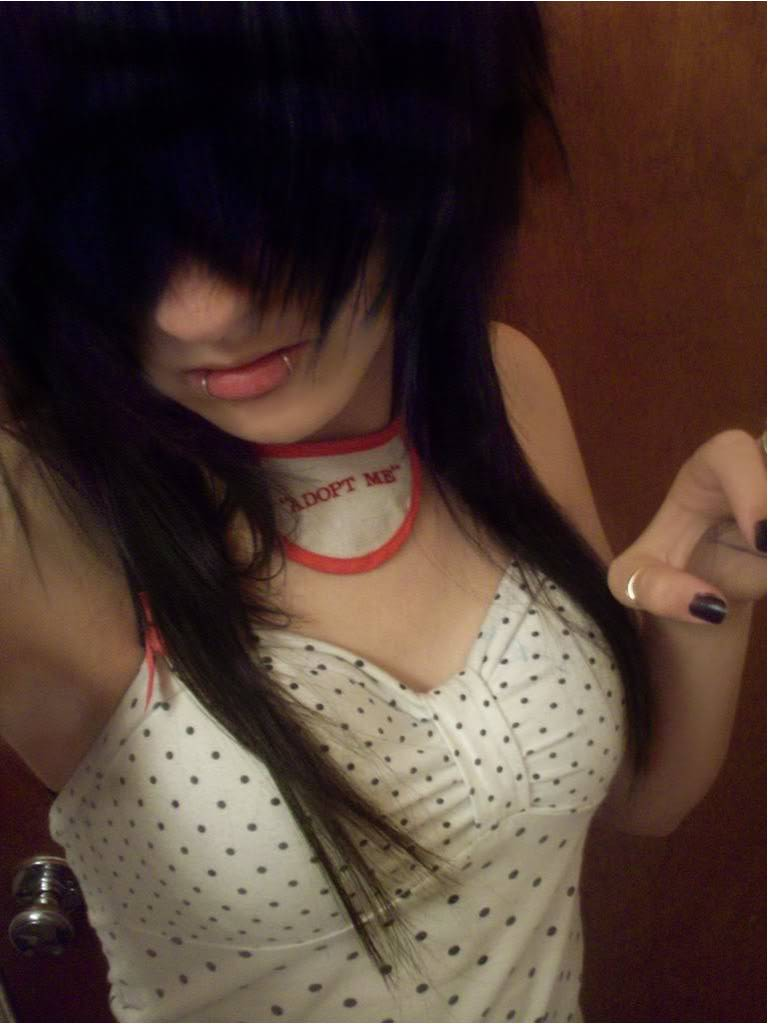 emo/scene